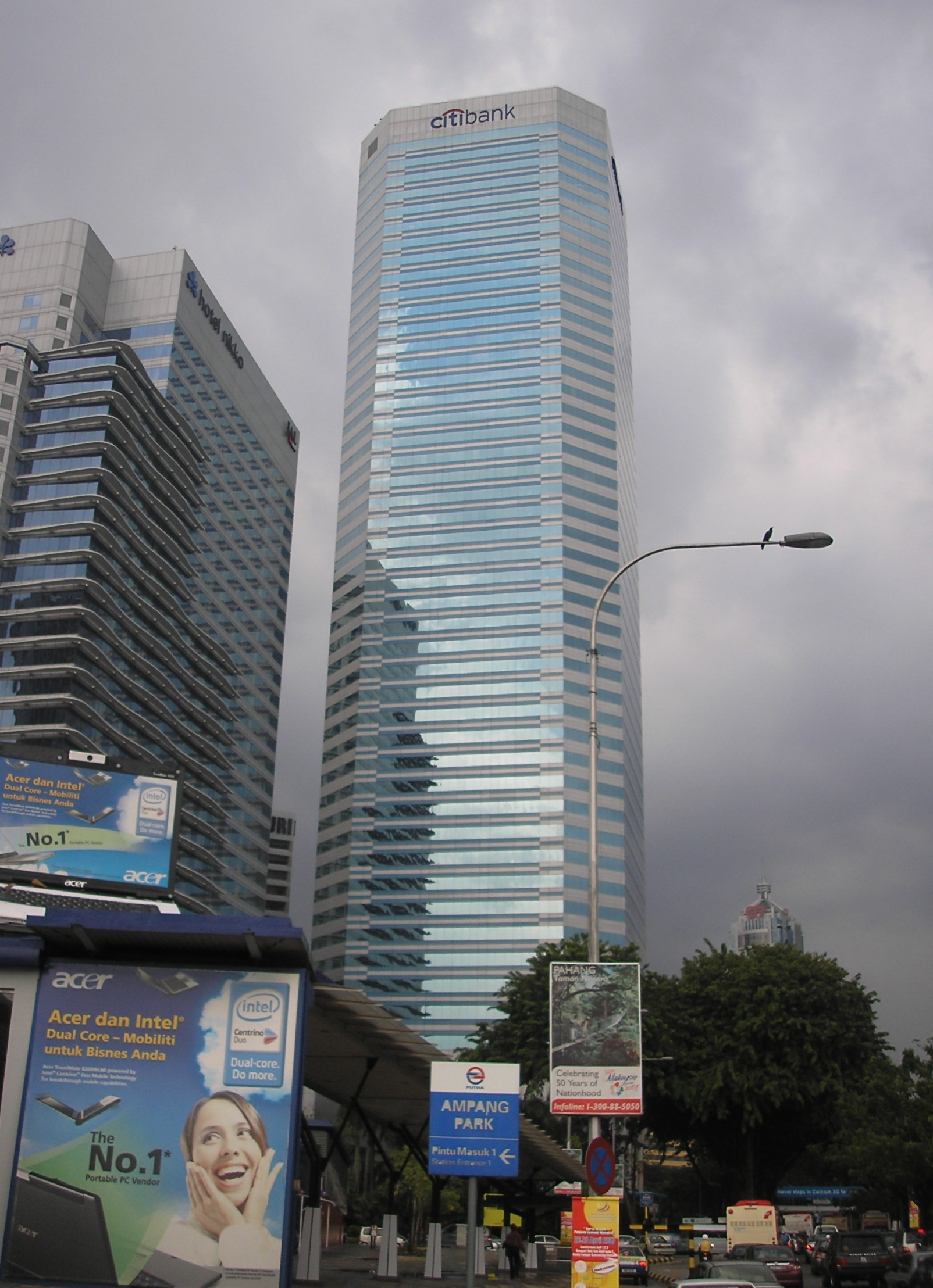 Citibank Tower (Menara Citibank) and the adjoining Nikko Hotel (left) off Jalan Ampang (Ampang Road), in the (new) Kuala Lumpur City Centre (KLCC), Kuala Lumpur, Malaysia. See also entry at Emporis.